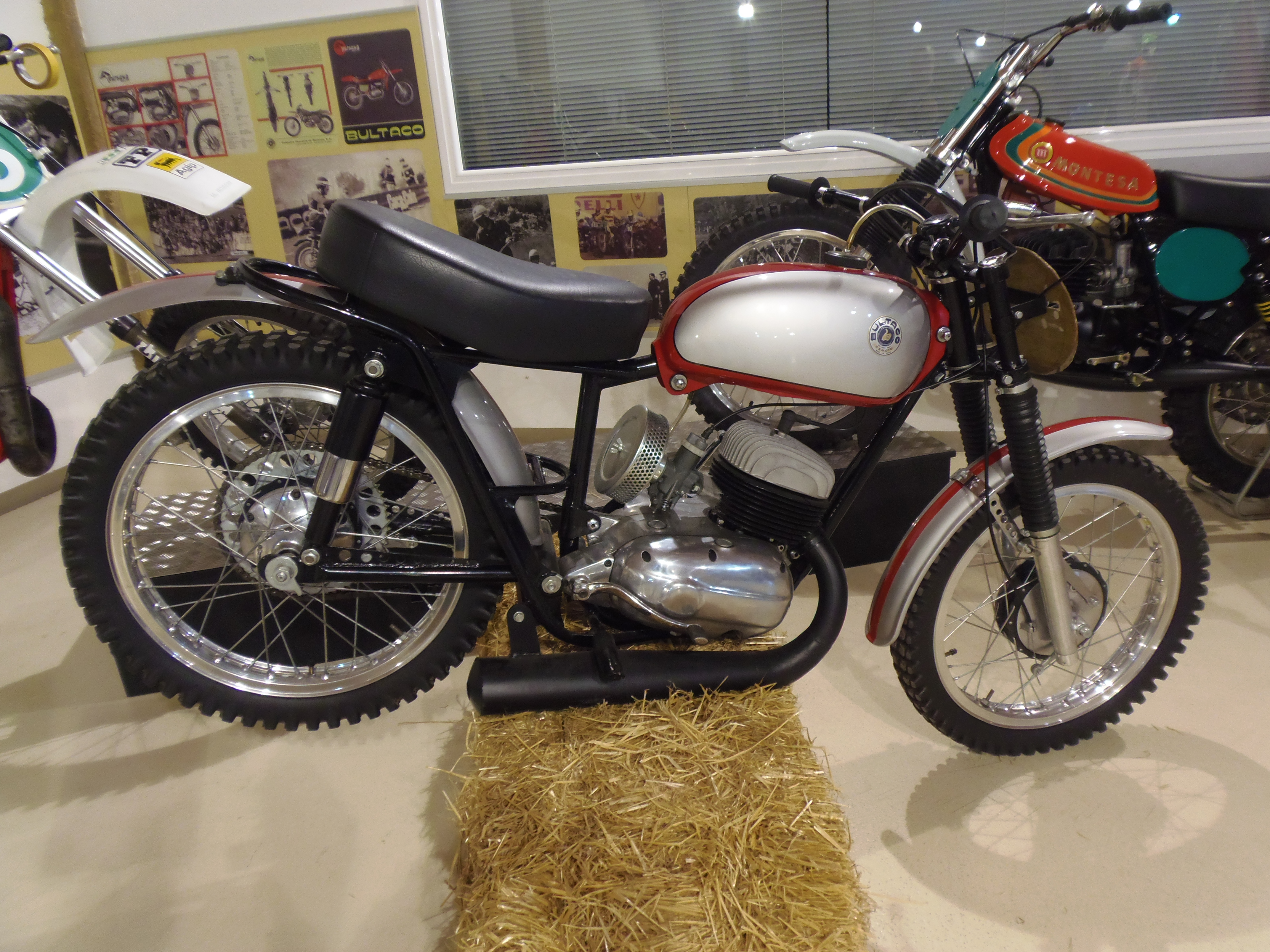 Estanis Soler's Bultaco Sherpa S 125. He rode it during 1962 and 1963 seasons.